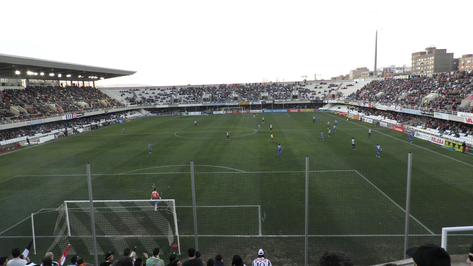 Cartaganova Stadium